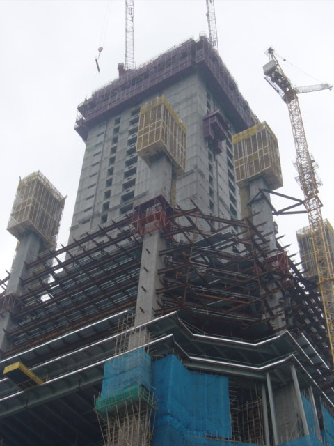 香港西九龍填海區九龍站上蓋Union Square高樓大廈－－興建中的環球貿易廣場）。International Commerce Centre, Western Kowloon District, Hong Kong.